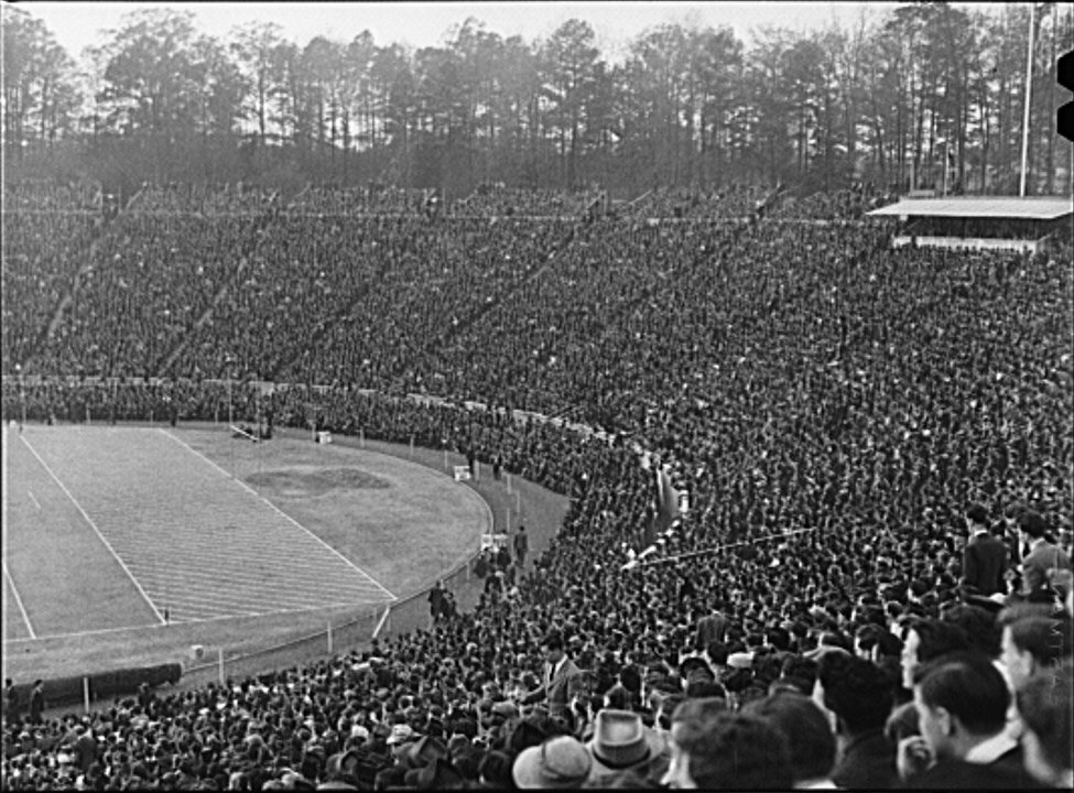 Wallace Wade Stadium during the 1939 Duke-UNC game. Duke won 13-3 in a game that set the all-time Wallace Wade attendance record with over 52,000 fans.[1]